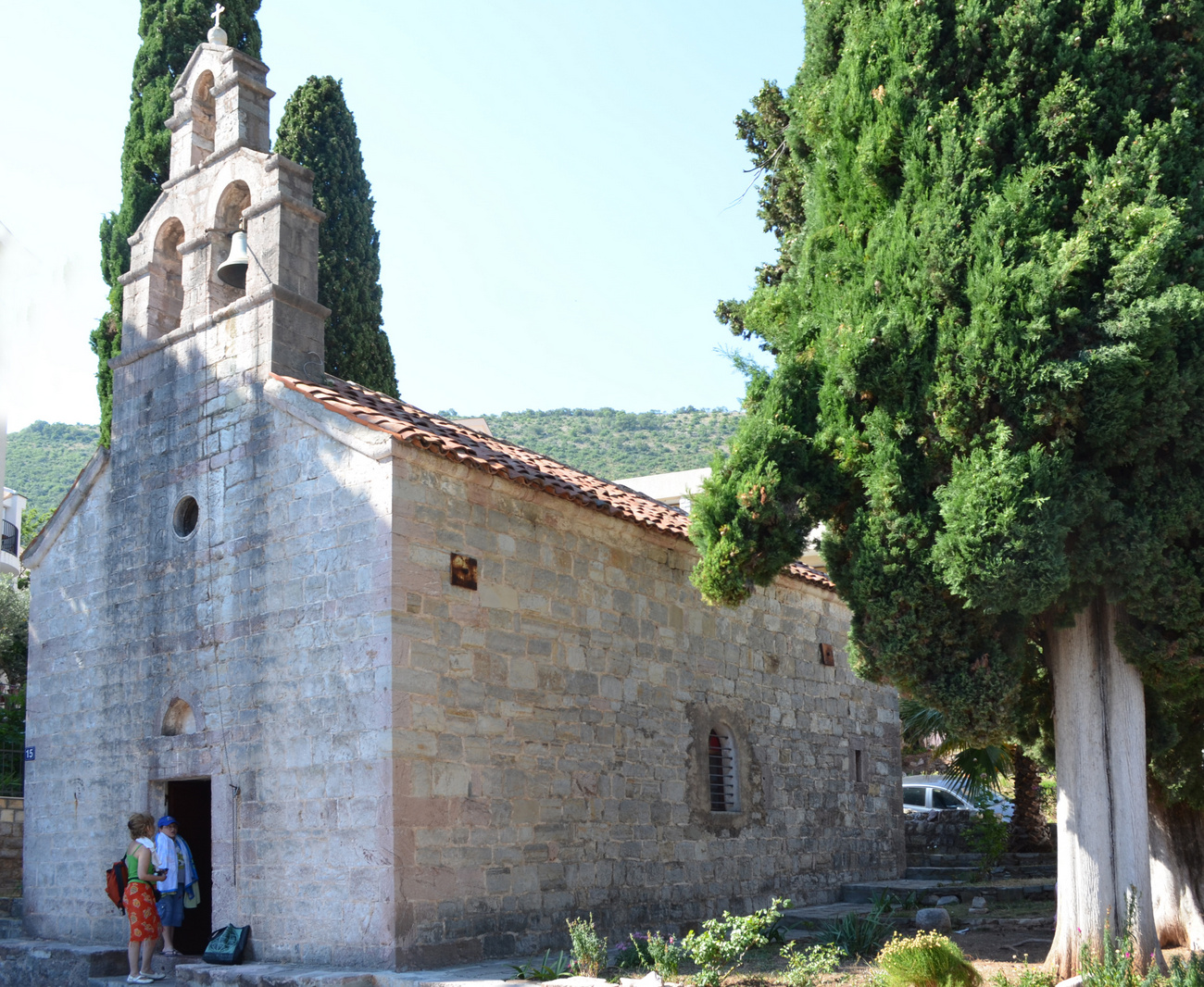 Church Sv. Ilije, Petrovac, Montenegro